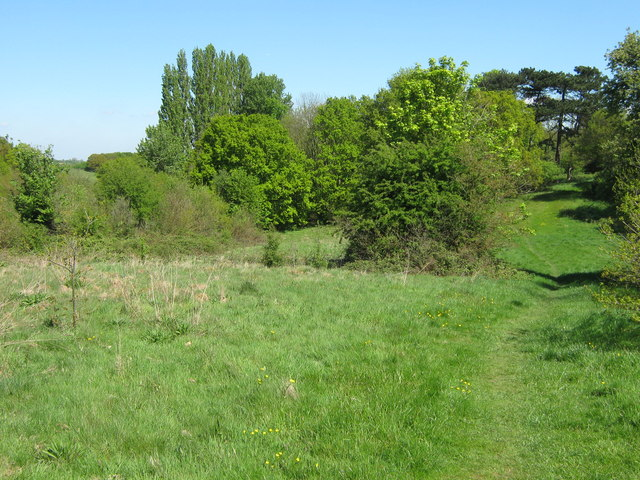 Footpath in Dartford Heath This footpath leads from Old Bexley Lane into the large (314 acres) Heath.